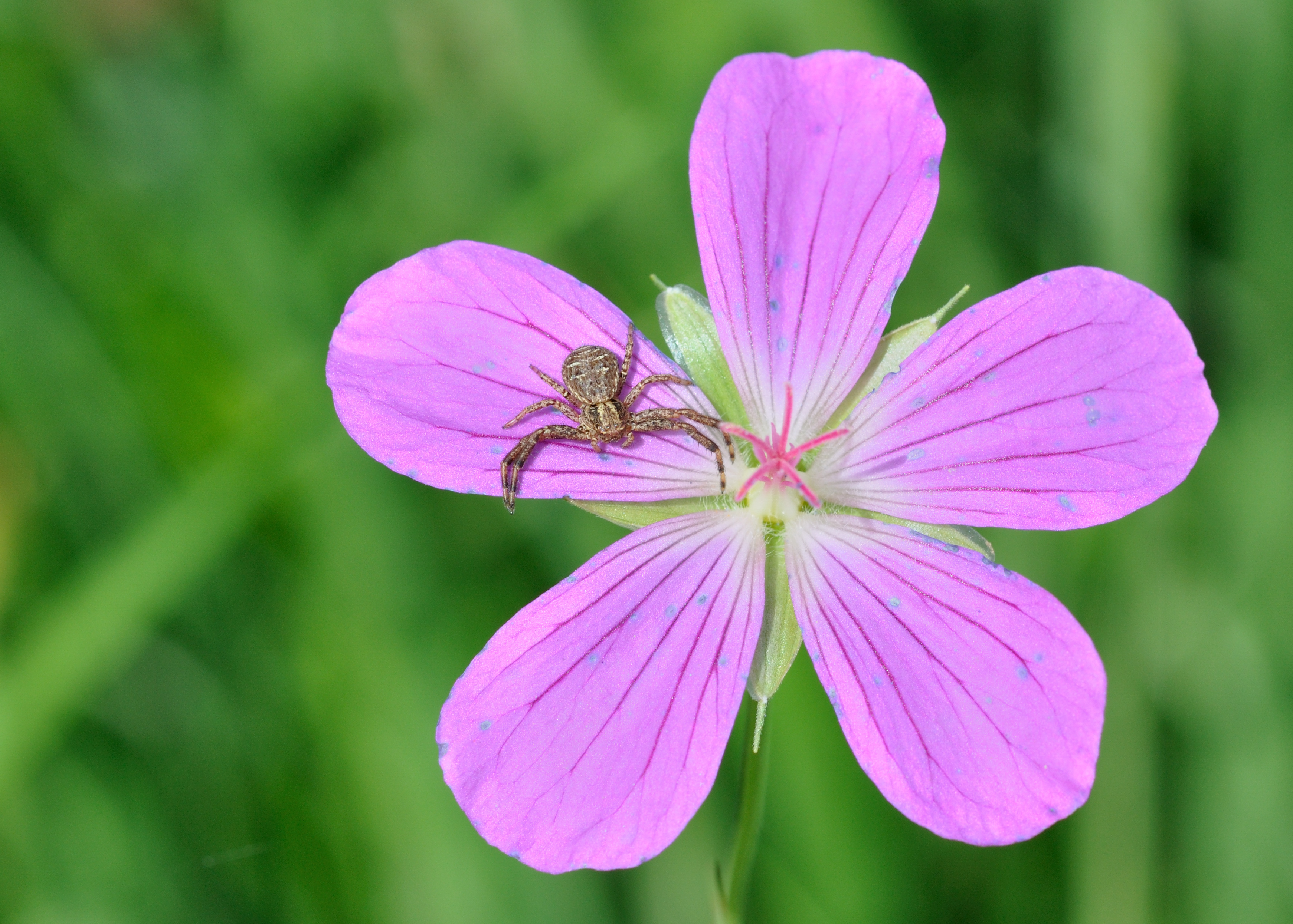 Crab spider (Xysticus sp.) lurking on Marsh Cranesbill (Geranium palustre) in Oberursel, Germany.